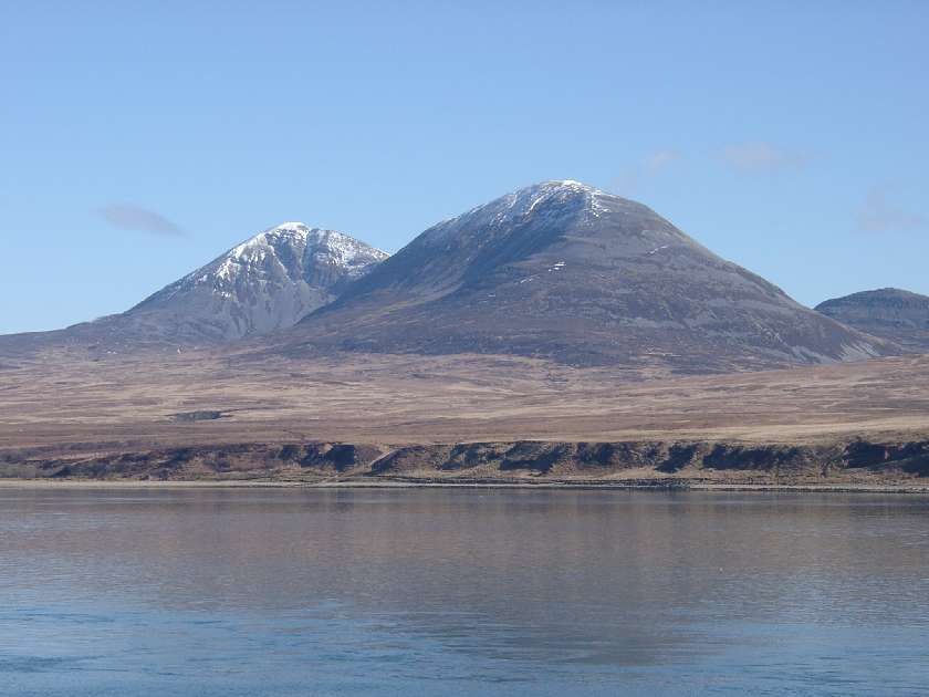 Two of the Paps of Jura taken from above Caolila on Islay.